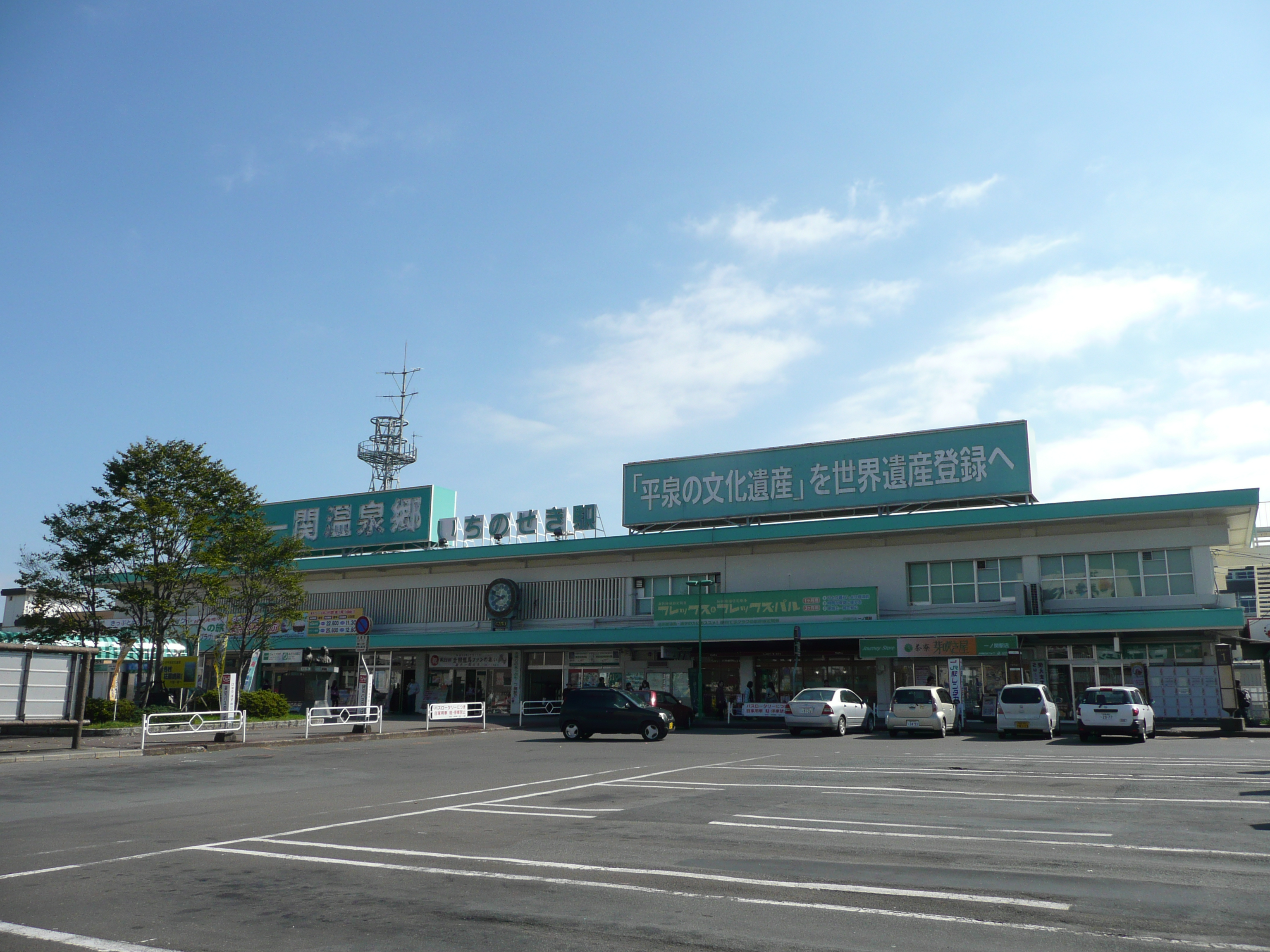 Ichinoseki Station building